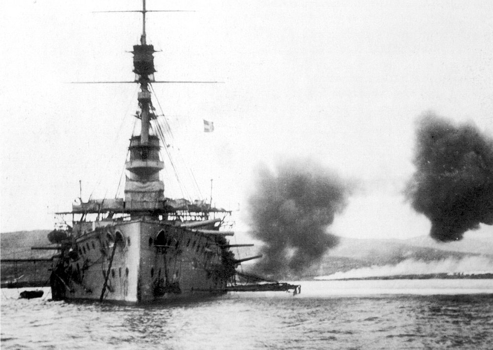 Battle of Gallipoli: Royal Navy battleship HMS Cornwallis fires a broadside salvo during the evacuation of Suvla, December 1915.. Cornwallis was the last Allied ship to leave Suvla Bay.